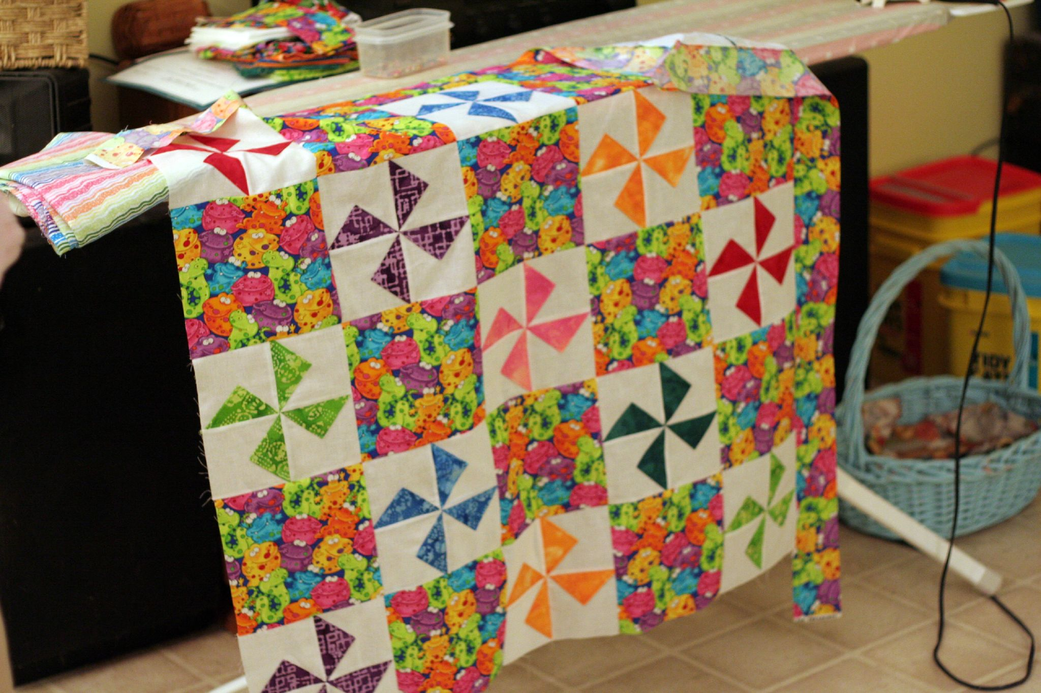 Carra making a baby quilt (pinwheel).